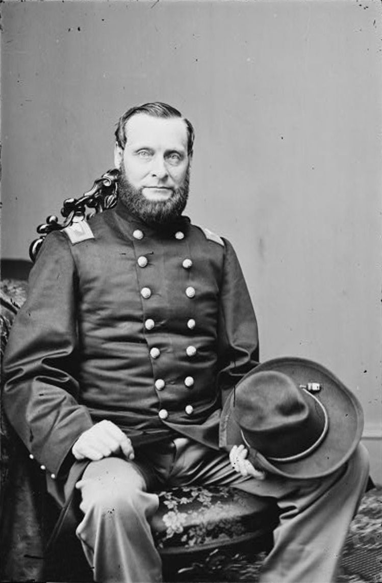 This is a slightly cropped image of Col. (later Gen.) Abel Delos Streight, commander of the 51st Indiana Infantry. In 1863, he led a combined force on a raid into northern Alabama. Taken prisoner, he later escaped and wrote an after action report of the events.